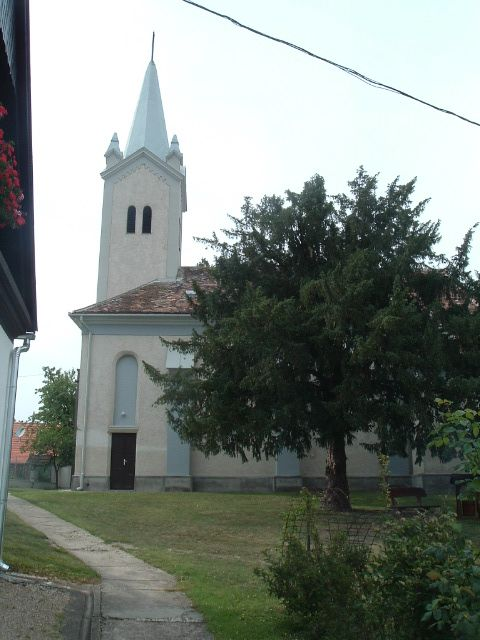 Roman Catholic Church in Tömörd, Hungary. Szent Ilona római katolikus templom